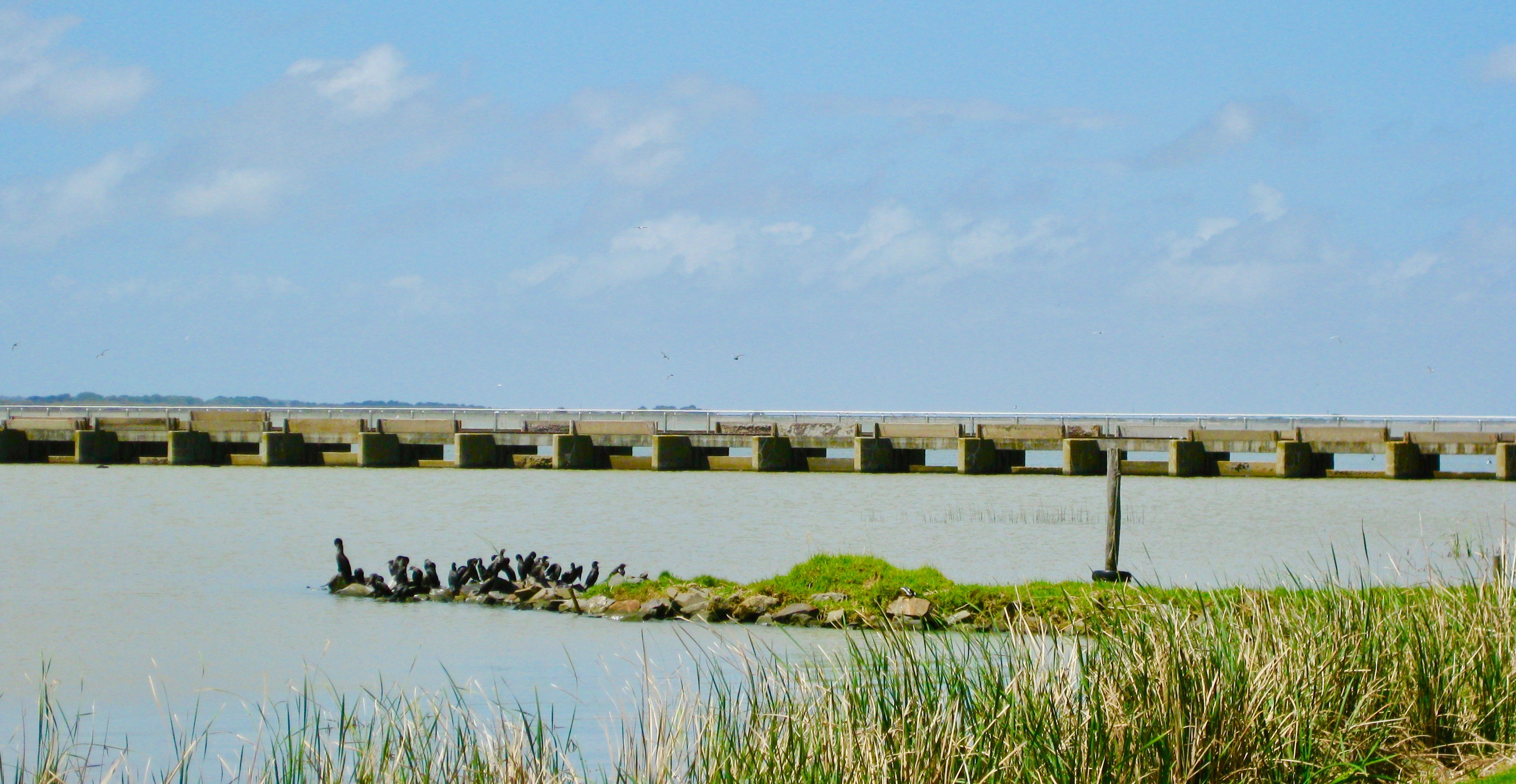 Goolwa Barrage near Murray River entrance - viewed from freshwater side.